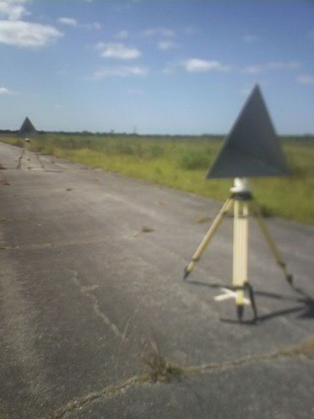 Triangle 2